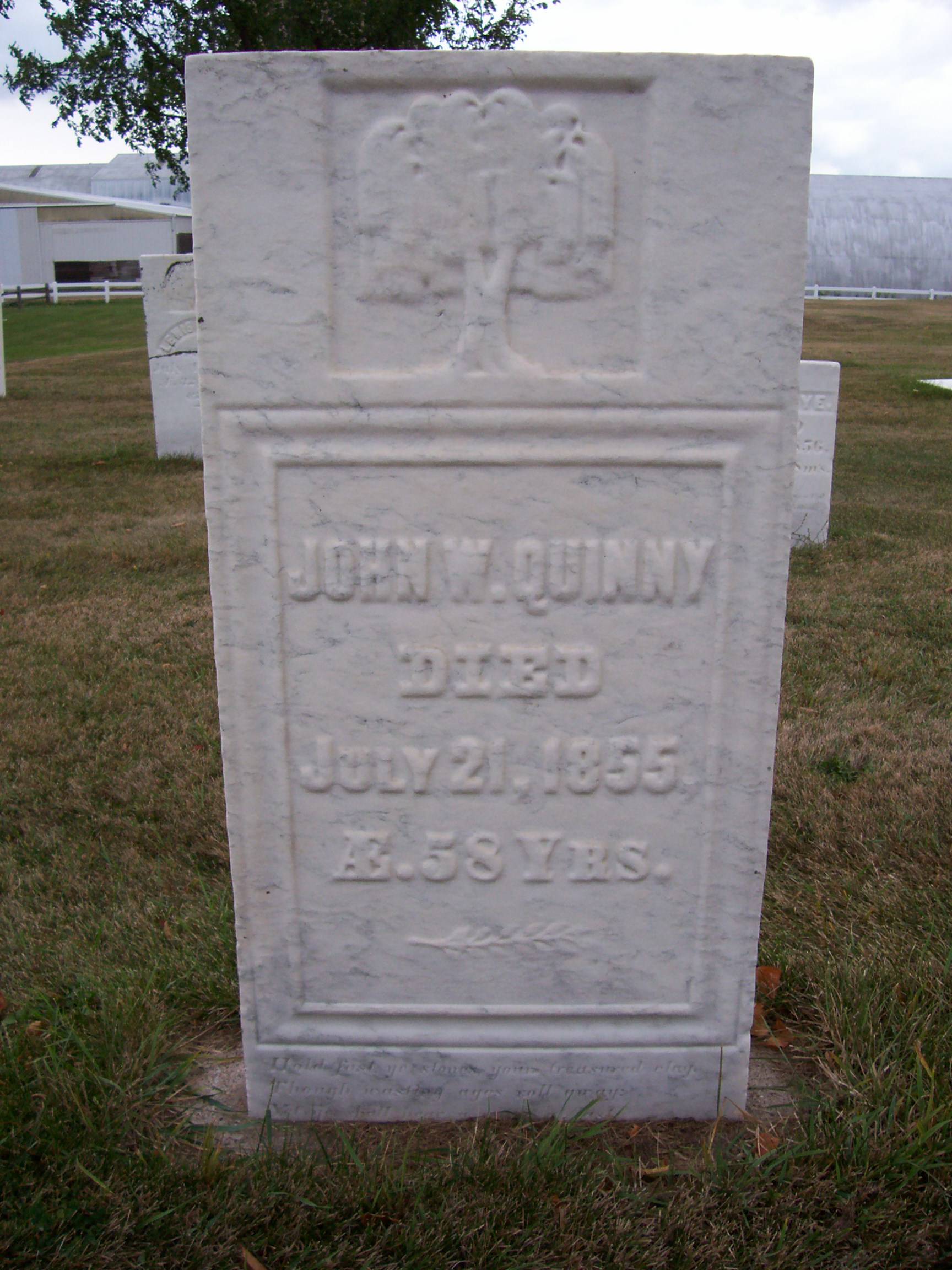 The grave site for John Wannuaucon Quinney at the Stockbridge Indian Cemetery near Stockbridge, Wisconsin. The cemetery is listed on the National Register of Historic Places.